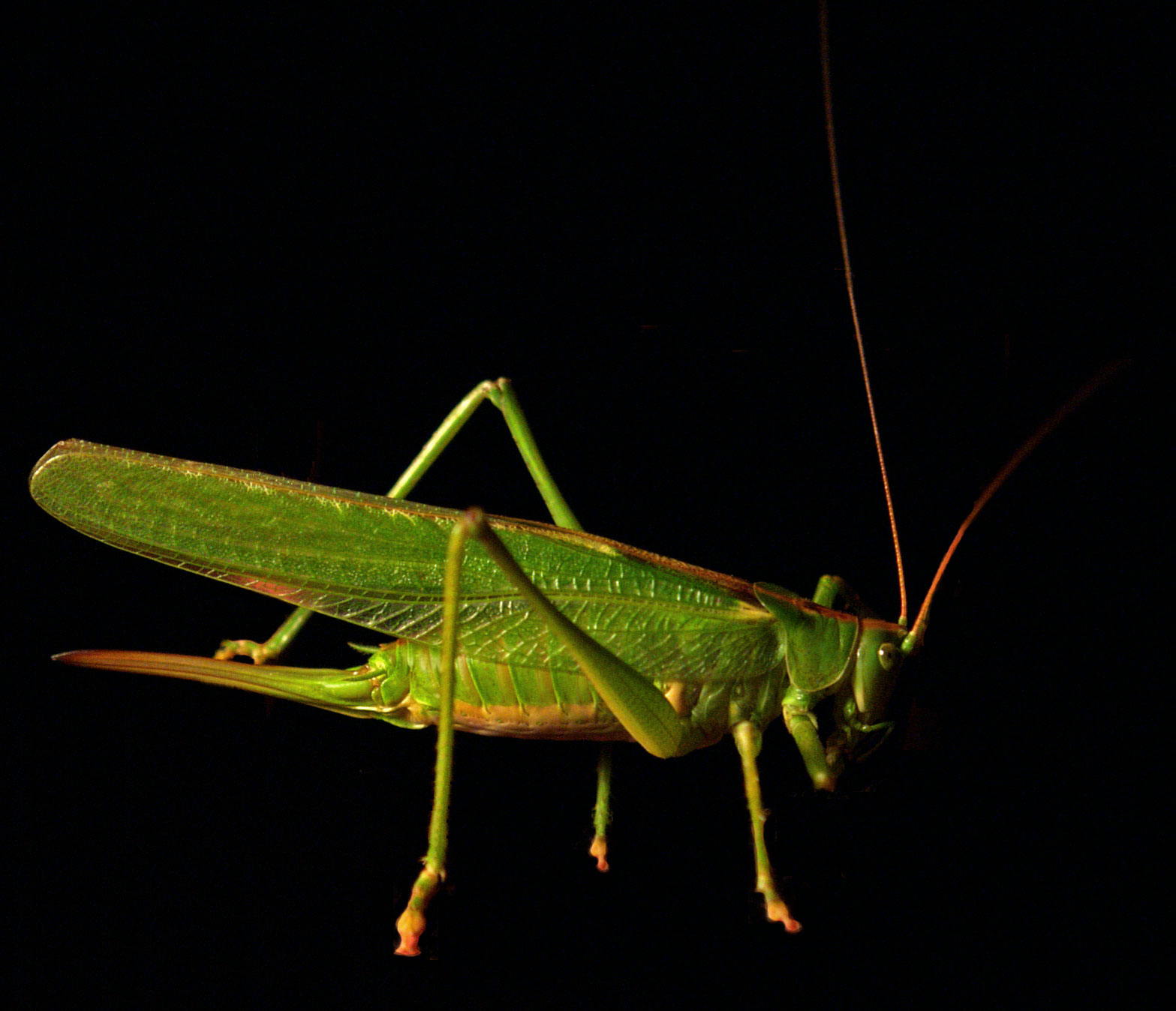 Great Green Bush-Cricket